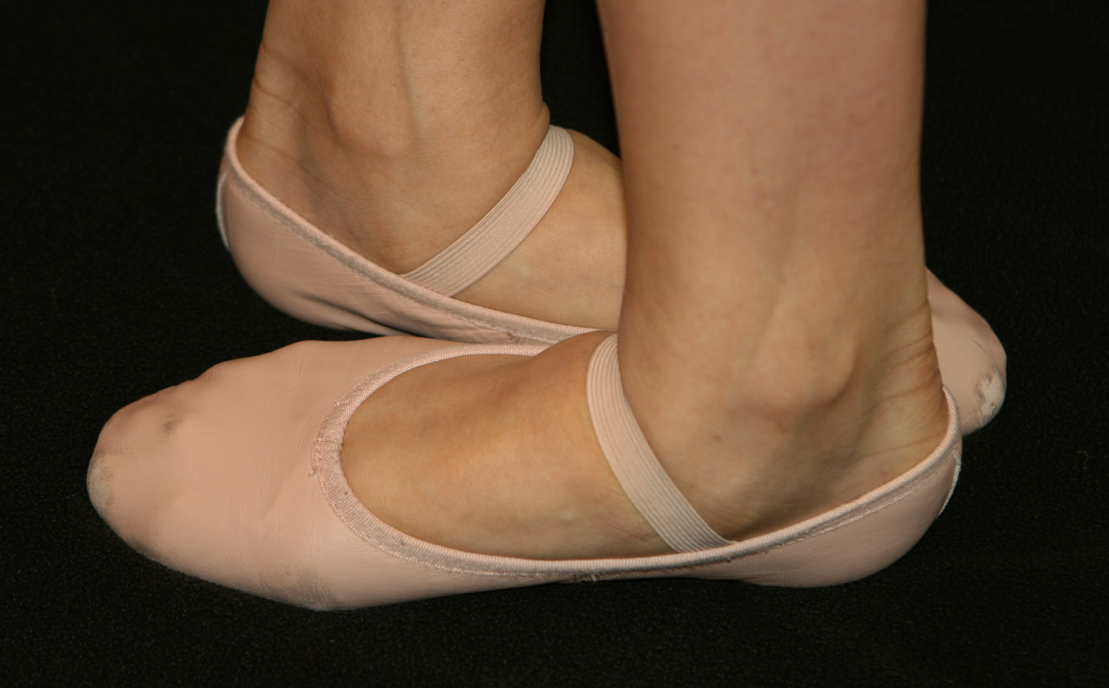 A dancer wearing ballet shoes, with feet in fifth position.